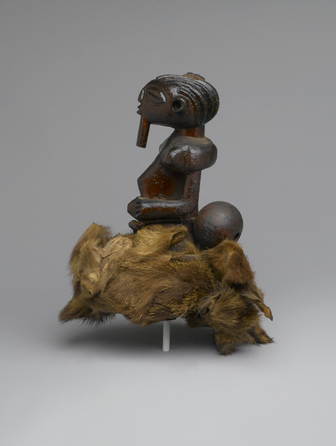 The main portion of the object consists of a carved human effigy. Stylized features of face, beard, hairdo and torso. Earholes have been drilled on both sides of the head. Another hole on top of the head has been filled with unknown material. The p. right arm is wrapped with cordage which runs through a small horn and ties it to the arm. Another length of cord runs around the waist and through a small gourd bound to the back. Below this the object has been wrapped with a piece of hide, most of its fur still intact. It is tied at the back The wood, cord, horn and gourd have been coated with an oil/resin material. Condition: good and stable. The wood shows some cracking; the hide is generally brittle. The surface is dusty overall.